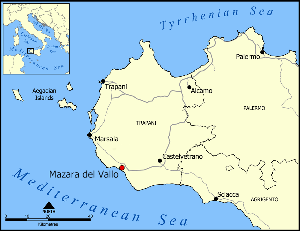 Map which shows the location of Mazara del Vallo in Sicily. Derived from the analogous work on Marsala by User:NormanEinstein.